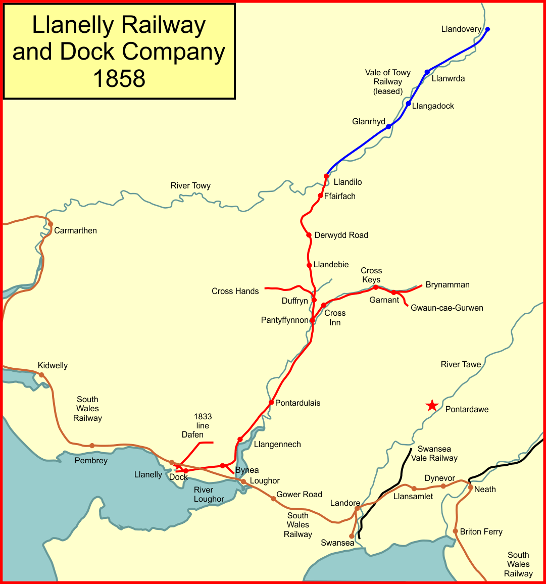 System map of the Llanelly Railway and Dock Company, Wales, in 1858